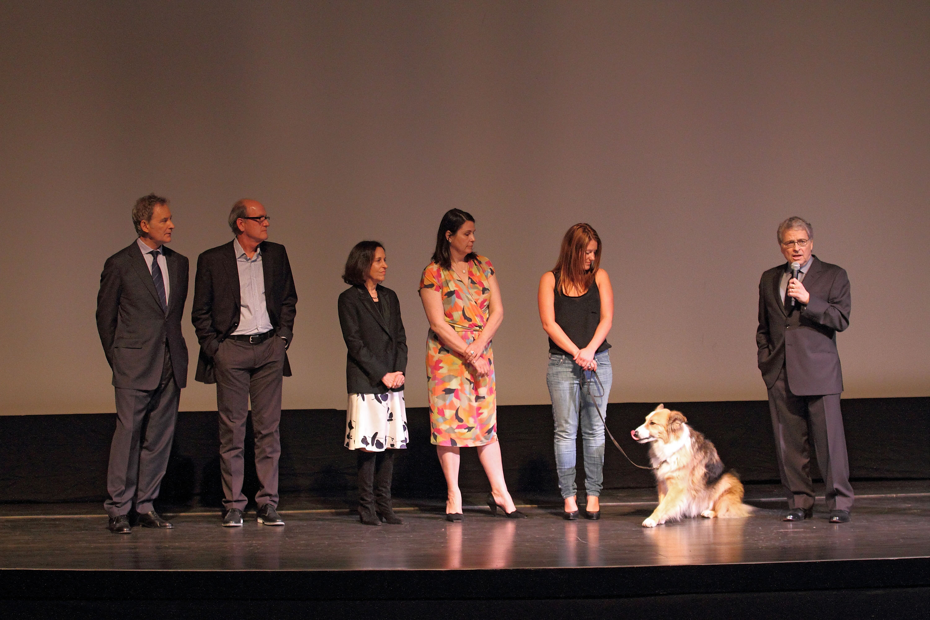 Actors Kevin Kline, Richard Jenkins, Meg Kasdan, Elizabeth Redleaf, Casey (aka Freeway) and Lawrence Kasdan at the 2012 Miami International Film Festival Premiere of Darling Companion at the Olympia Theater